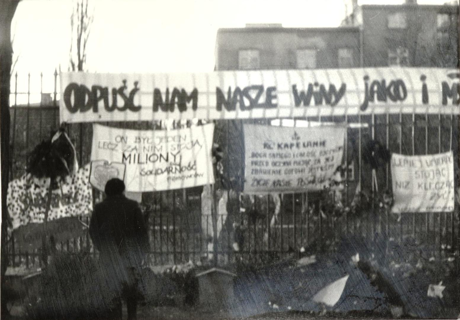 Funeral of Jerzy Popiełuszko at Saint Stanislaus Kostka Church in Warsaw